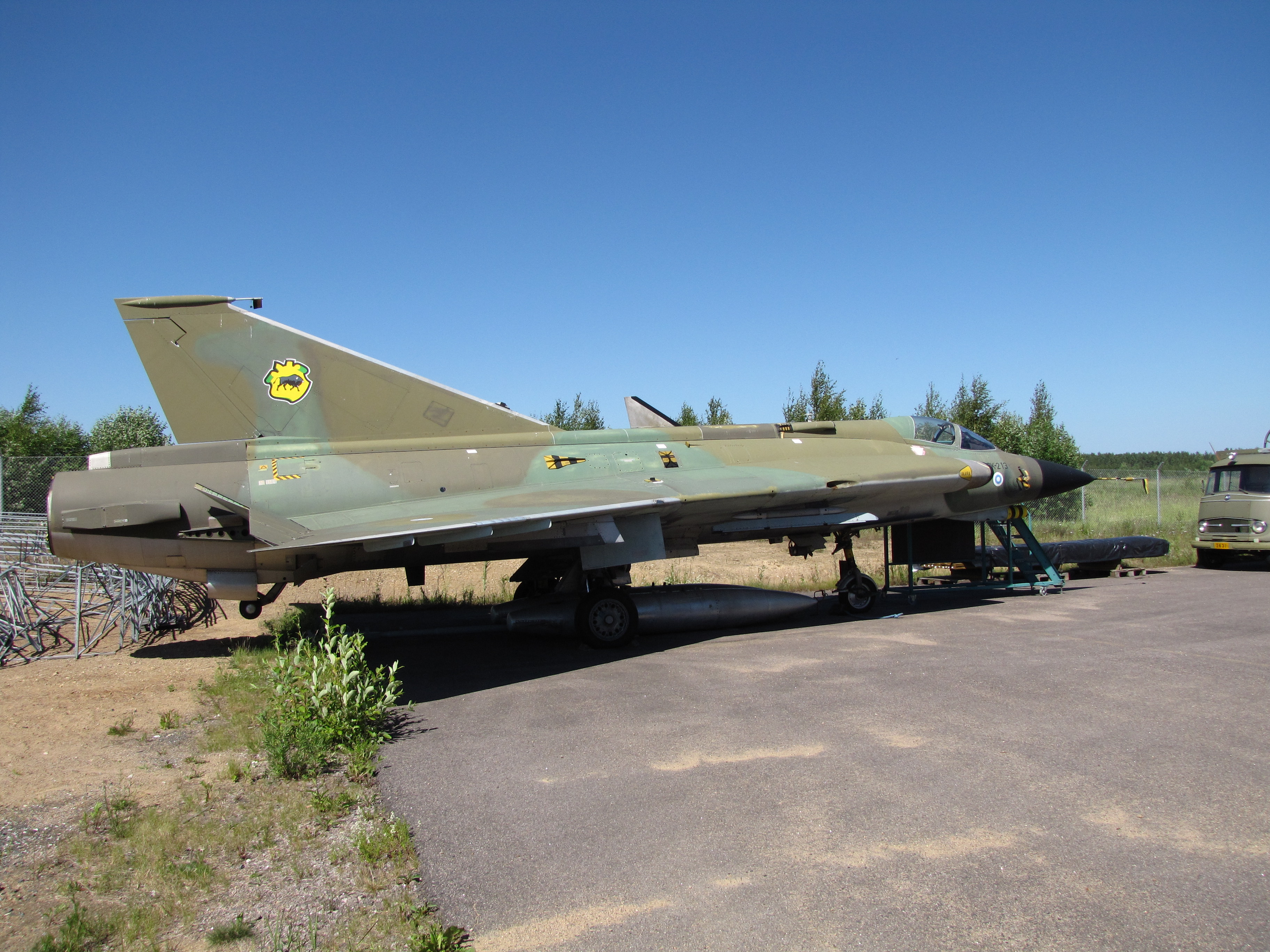 Saab 35 S Draken DK-213, a Finnish license-produced Draken F2. The ox in the tail fin is the symbol of Fighter Squadron 11.